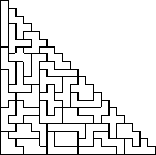 Hexomino packing right scalene triangle 20x20